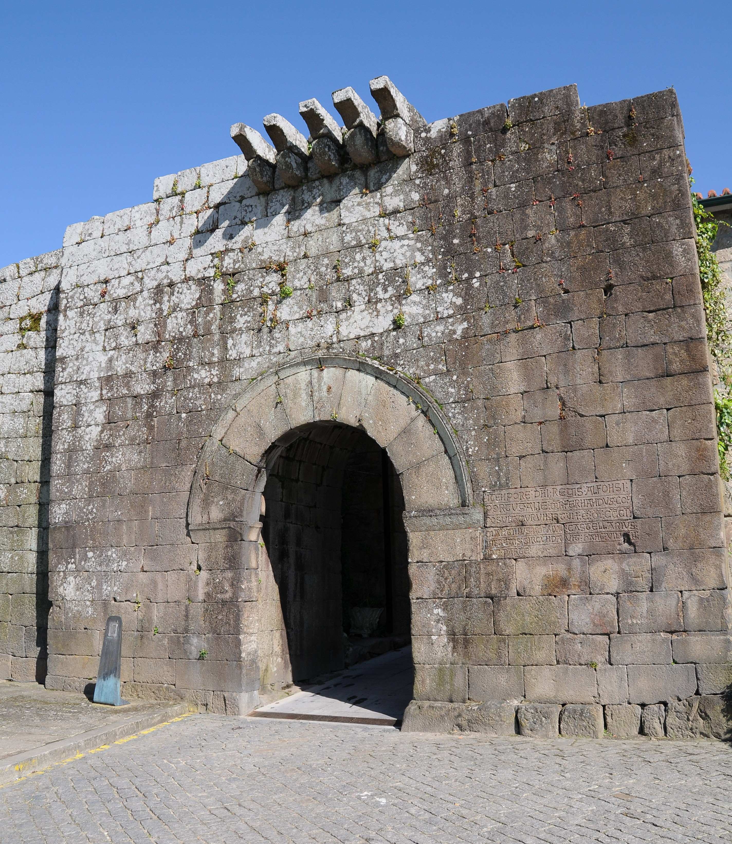 Main entrance in Melgaço Castle, Portugal.